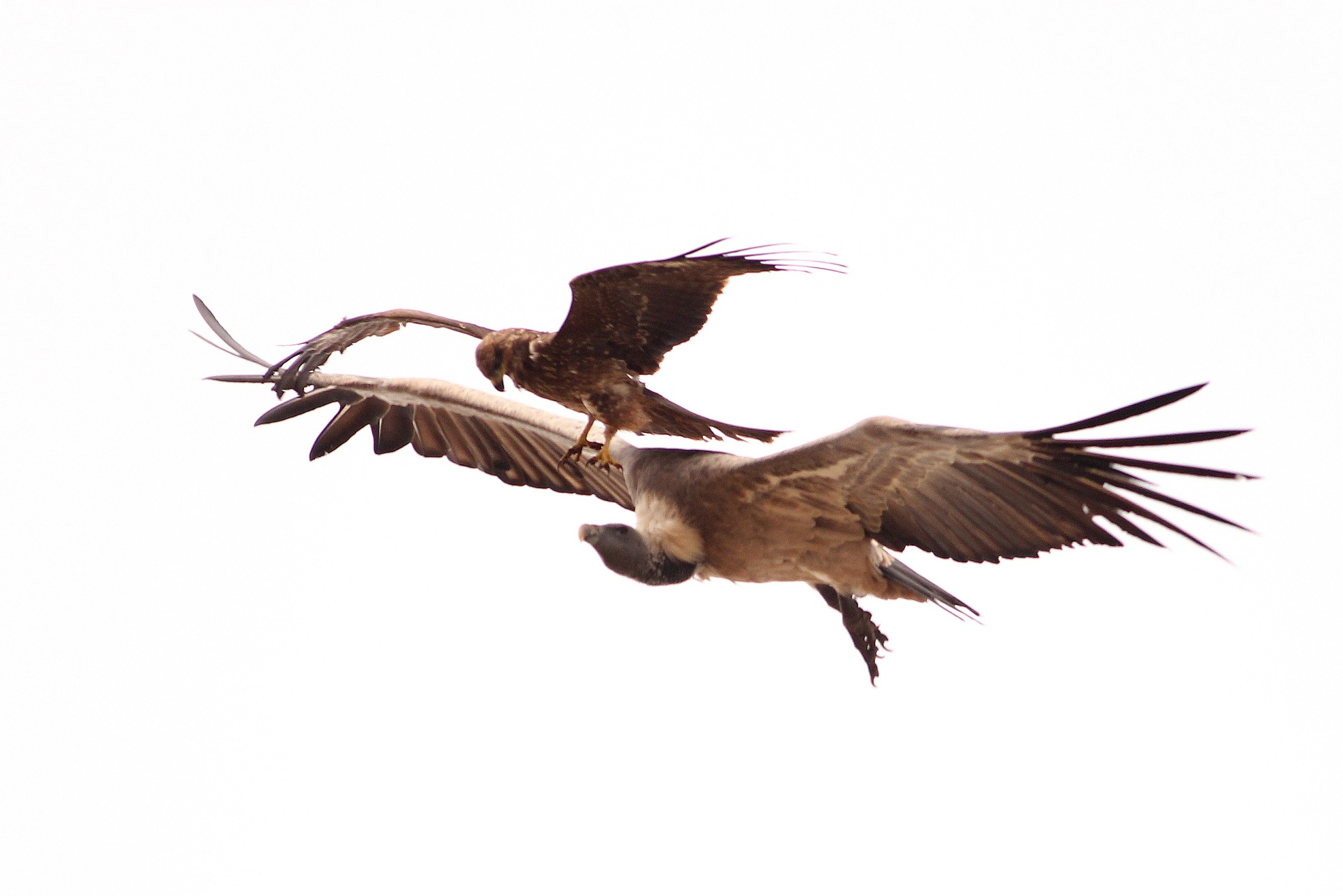 Indian Vulture chased by Black Kite at Ramanagara, Karnatak